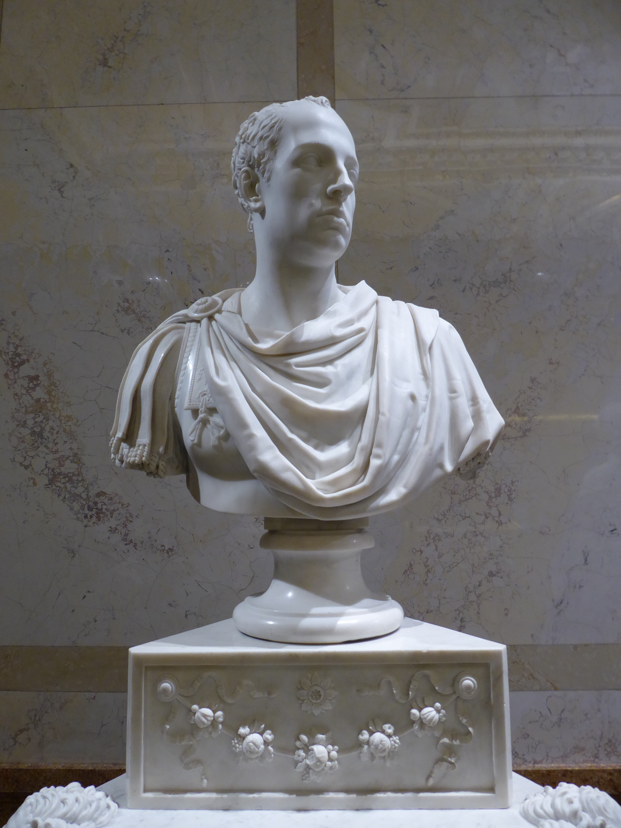 Marble bust of Francis II, Holy Roman Empire (Francis I of Austria), dated Venice, 1805. Sculptors: Antonio Canova (1757–1822) and Domenico Fadiga (active 1788–1827), after a design by Gianantonia Selva (1751–1819). Exhibited in the Kunstkammer collection in the Kunsthistorisches Museum, Wien. See a photo of this bust on the homepage of the museum. I have taken this photo on 2018-03-13.